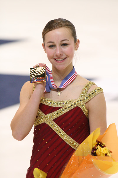 Kimmie Meissner during the ladies medals ceremony at the 2007 Skate America. Meissner won the competition.